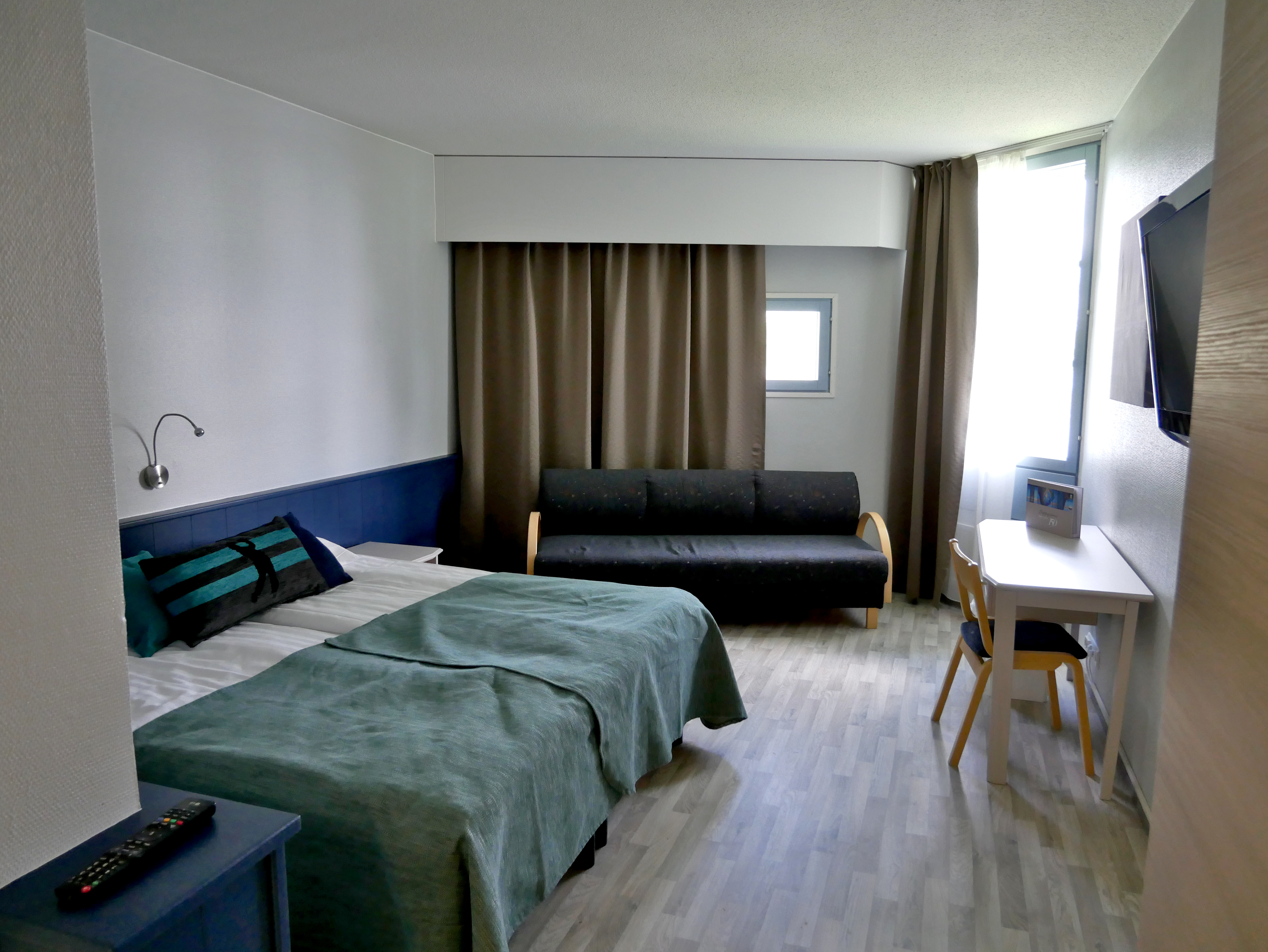 Hotel room in Hotel Kivitippu, Lappajärvi.